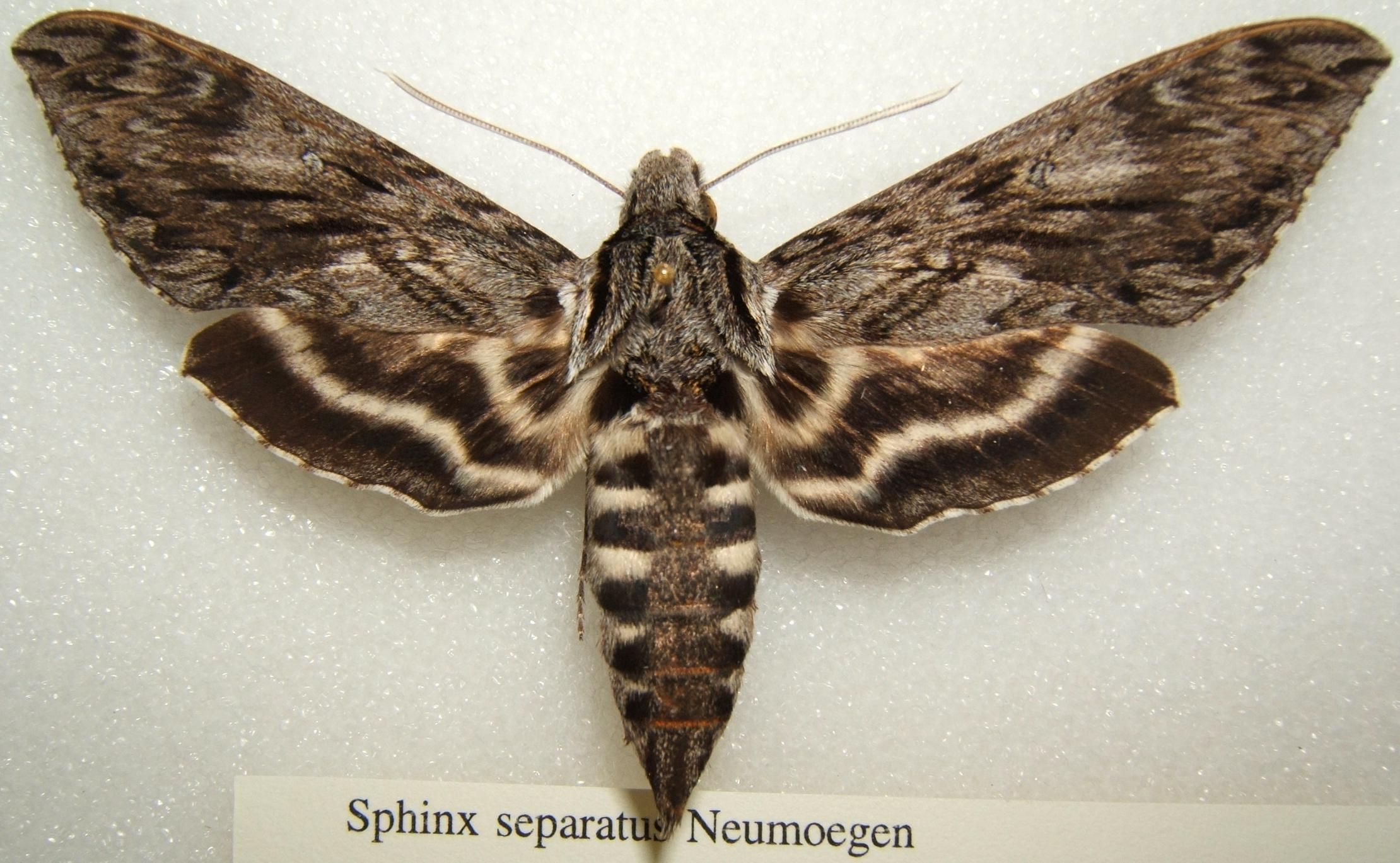 Sphinx separatus adult taken by Shawn Hanrahan at the Texas A&M University Insect Collection in College Station, Texas.